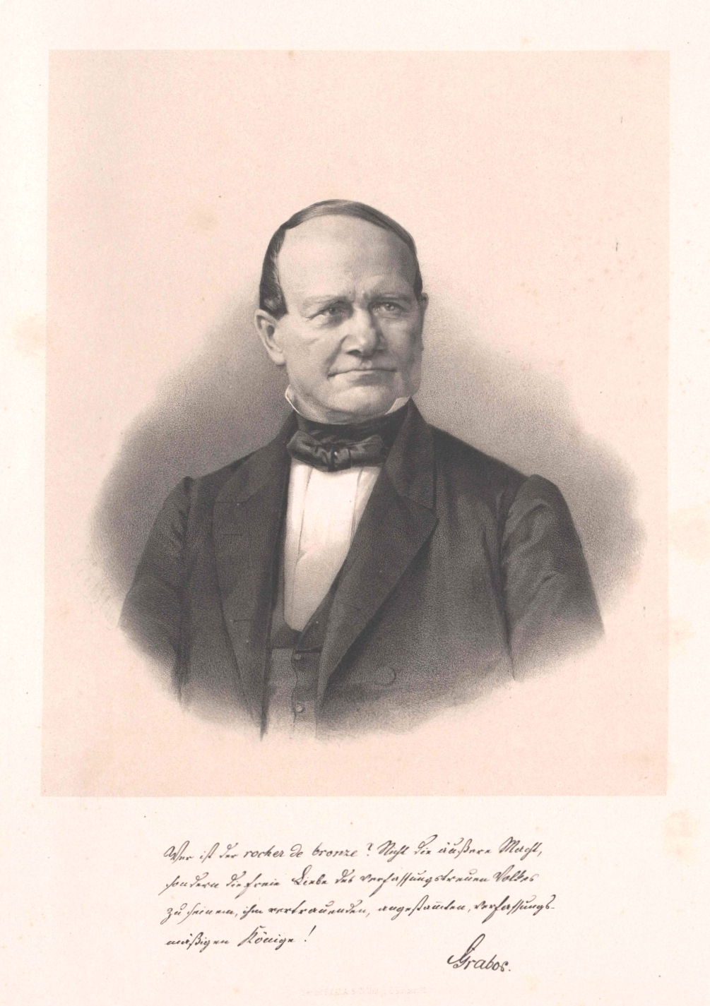 Wilhelm Grabow (1802–1874)